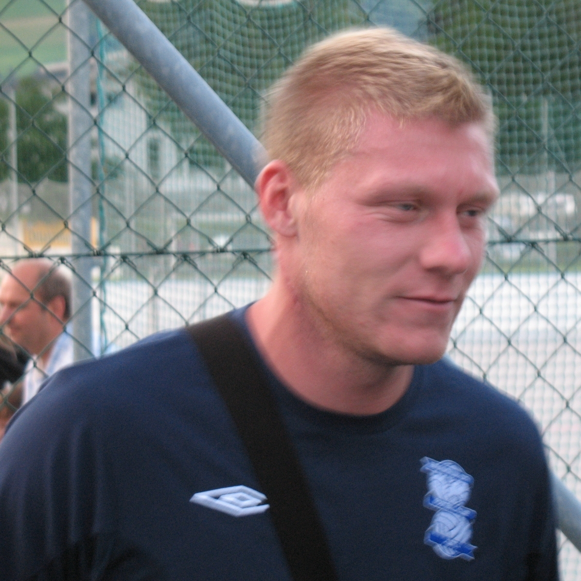 Scotland international footballer Garry O'Connor of Birmingham City F.C. at the pre-season friendly against VfB Stuttgart in Zell am See, Austria